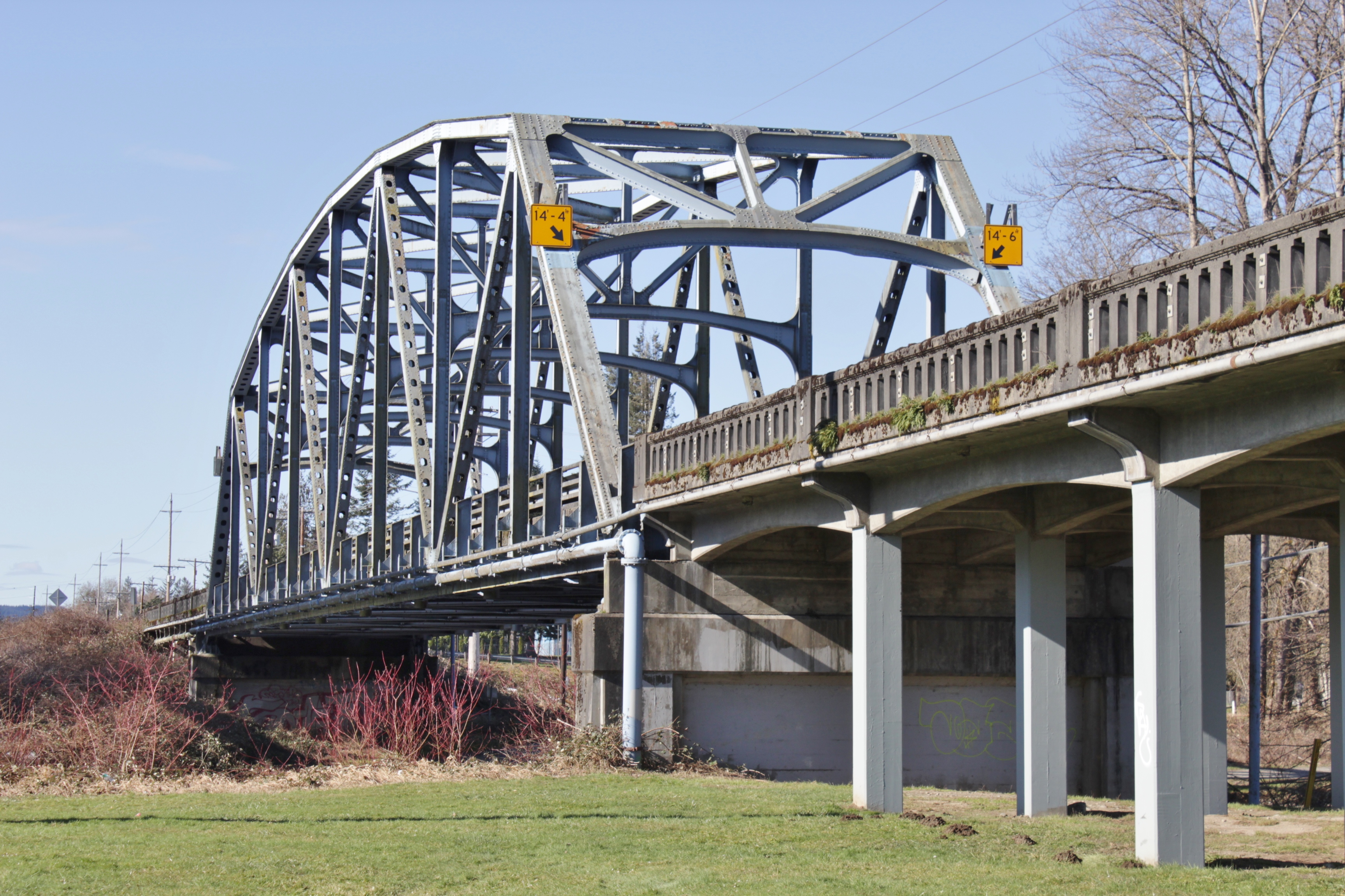 A truss bridge carrying U.S. Route 2 (the Stevens Pass Highway) across the Sultan River west of downtown Sultan, Washington, United States.